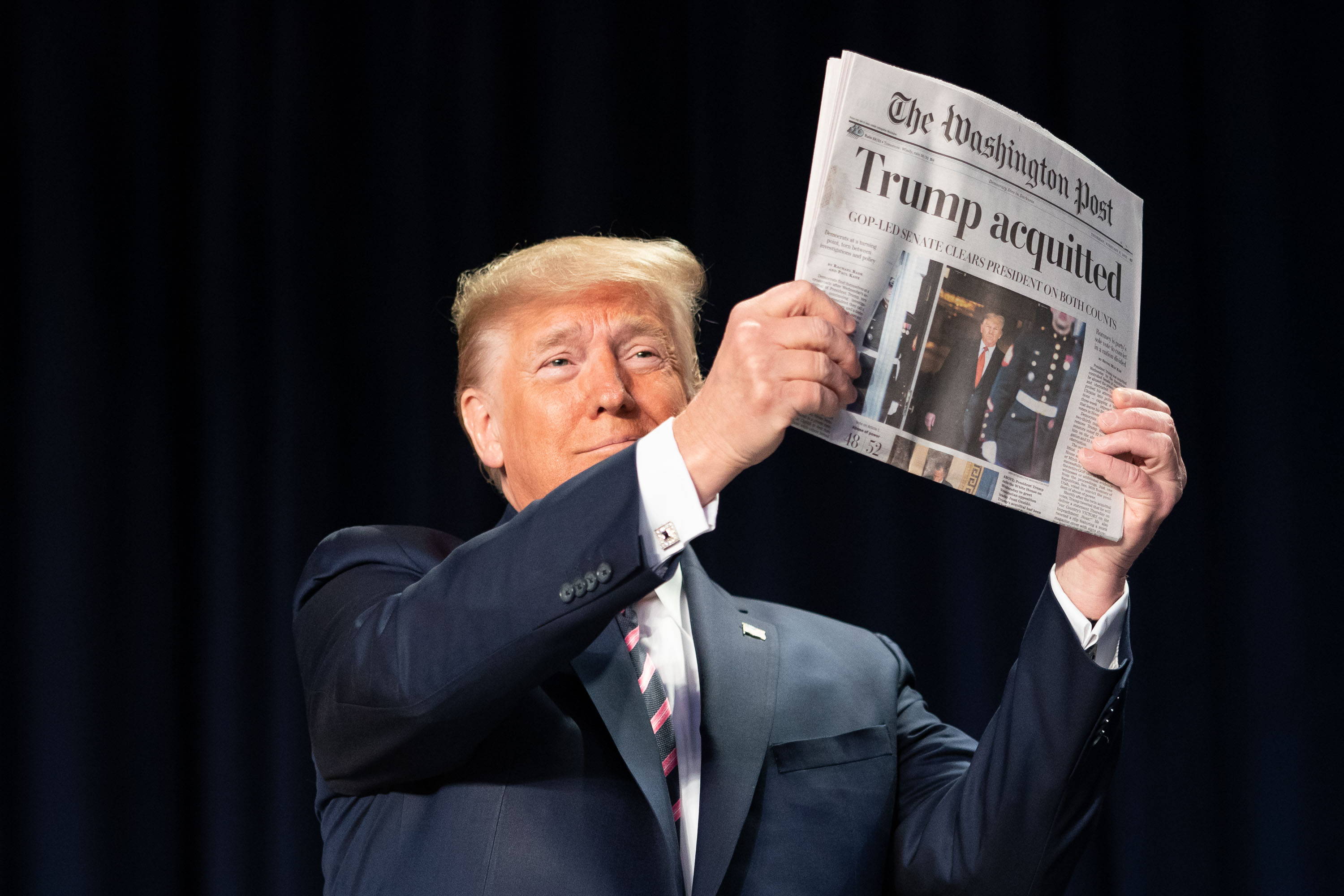 President Donald J. Trump holds up a copy of The Washington Post during the 2020 National Prayer Breakfast Thursday, Feb. 6, 2020, at the Washington Hilton in Washington, D.C. (Official White House Photo by Joyce N. Boghosian)